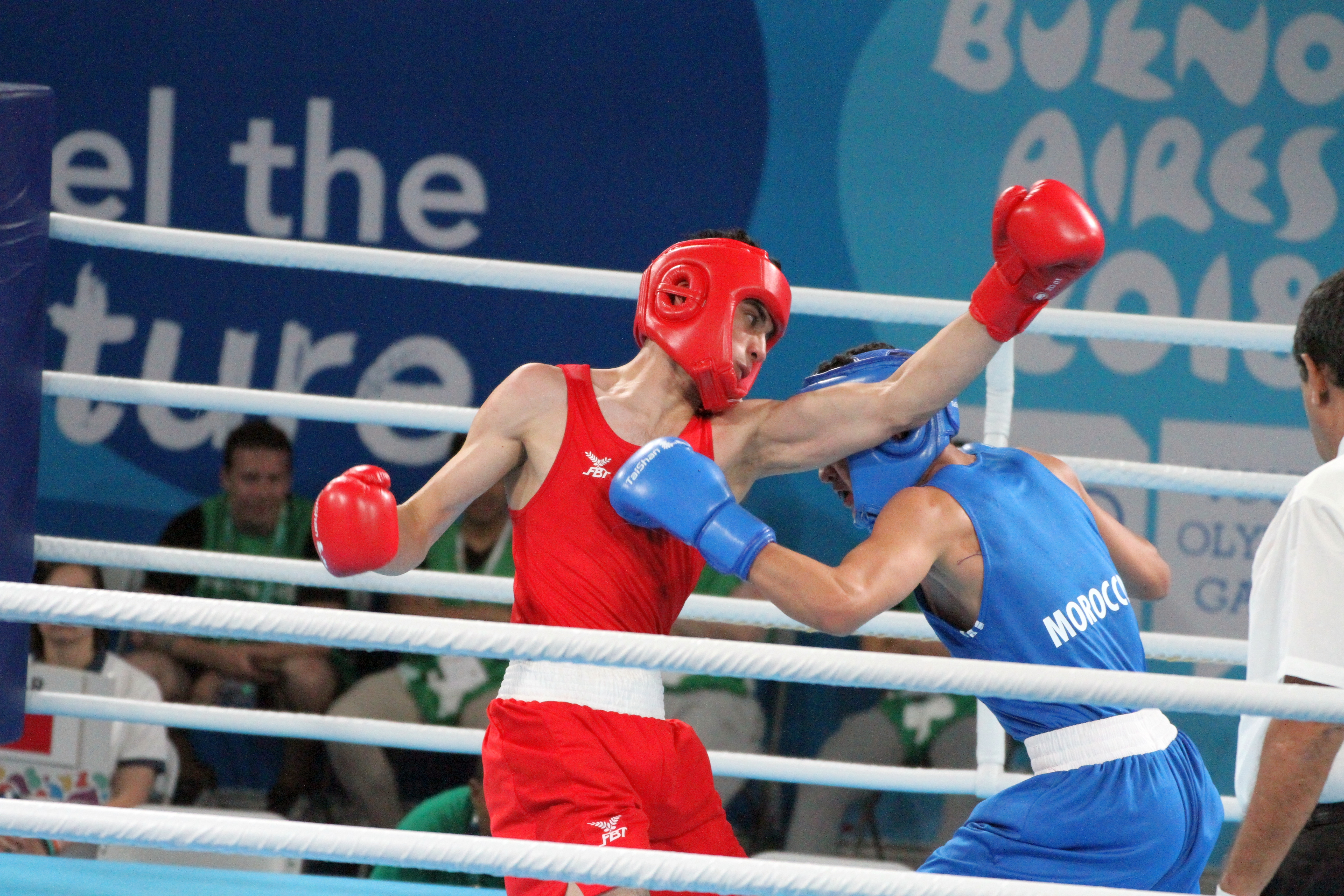 Boxing at the 2018 Summer Youth Olympics on 18 October 2018 – Bronze Medail Match Light Welterweight Boys - Hassan Azim (Great Britain, red) beats Mohammed Boulaouja (Morocco, blue) RSC; Referee is Wulfren Olivares Peréz (Columbia).